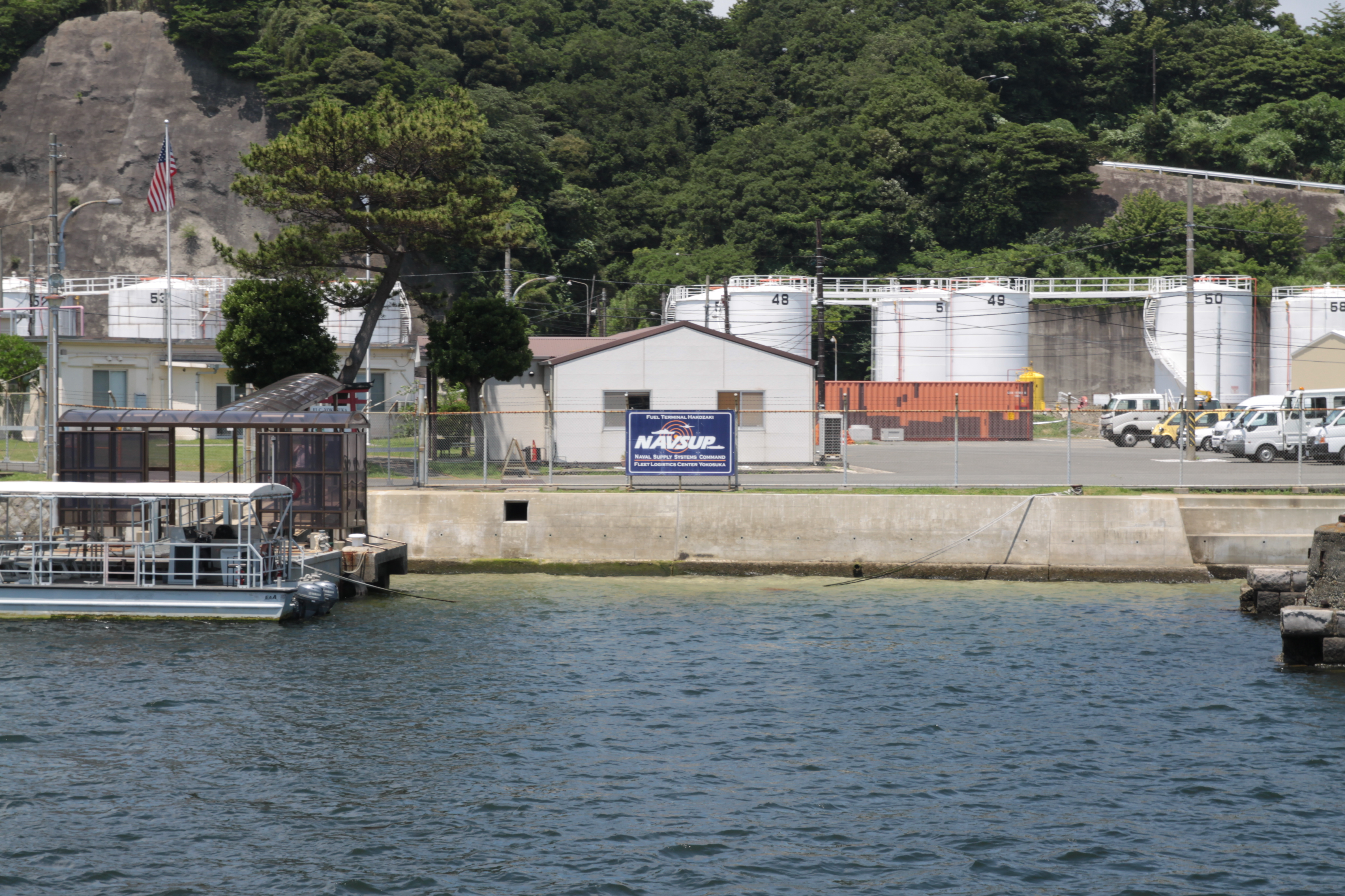 Azuma Storage Area from Arai waterway.Signboard Shows there is a branch of Naval Supply Systems Command.